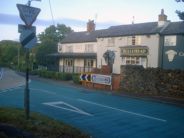 The Bulls Head Situated on Loughborough Road at its junction with the main A512 Ashby Road. Large country pub, parts of which date back to 1777.